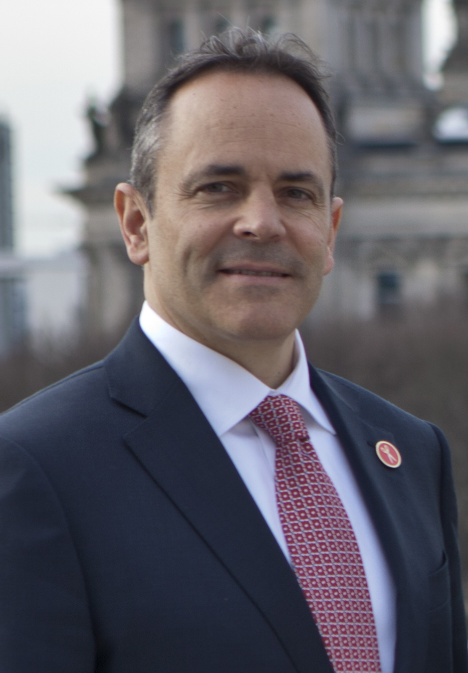 Kentucky Governor Matt Bevin visiting the Embassy of the United States in Berlin